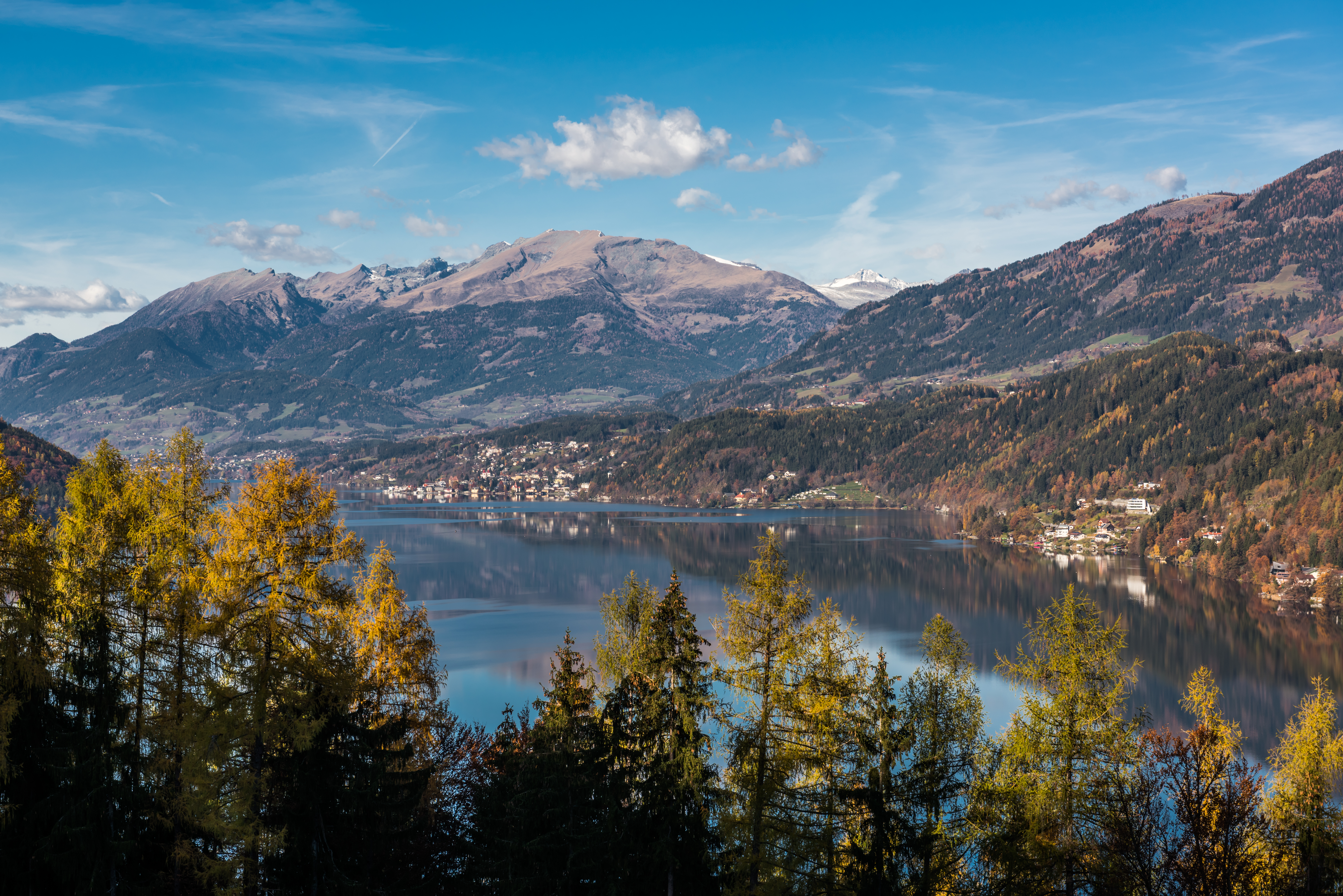 Southeastern view at the Millstaetter See with Millstatt and the Reißeck in the background, market town Millstatt, district Spittal an der Drau, Carinthia, Austria, EU